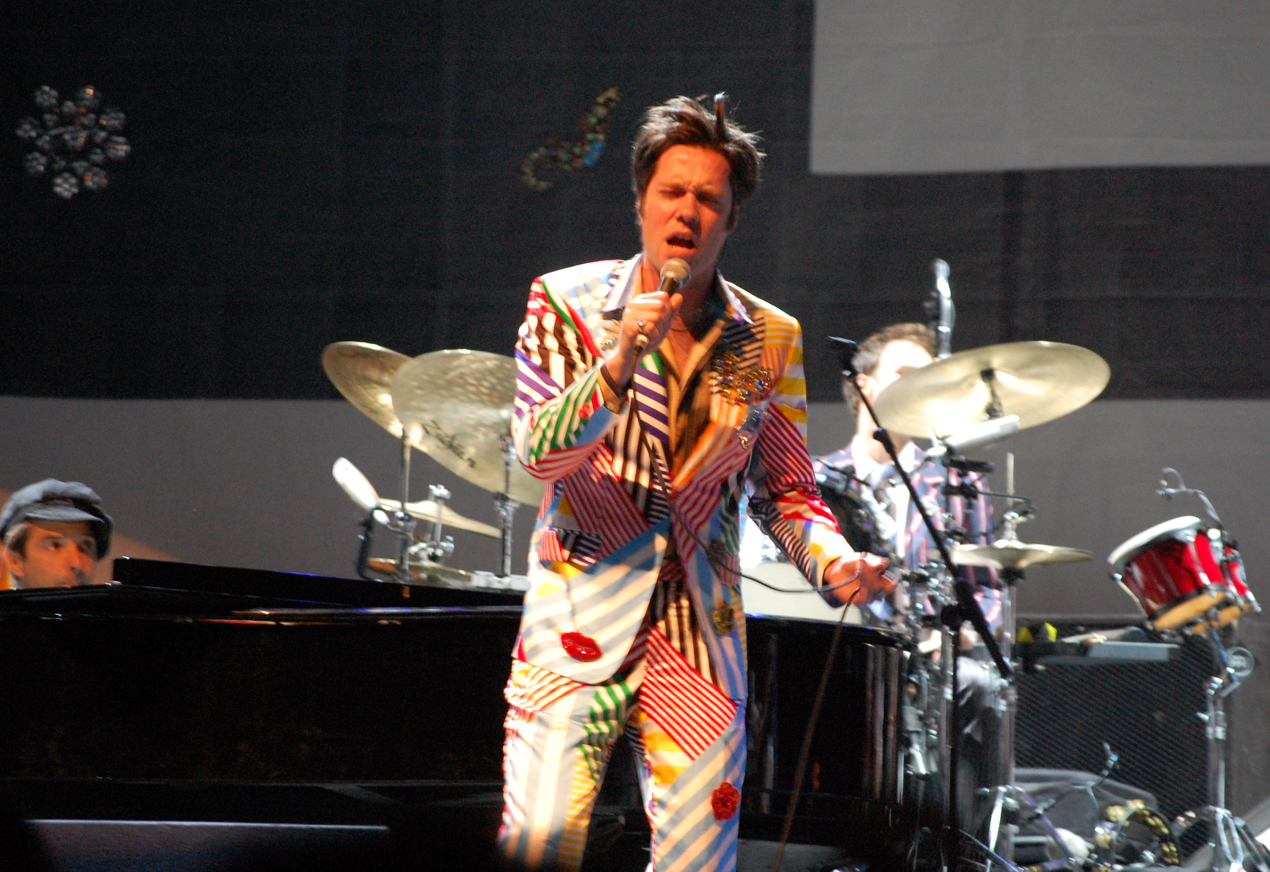 Rufus Wainwright live At Rock Werchter